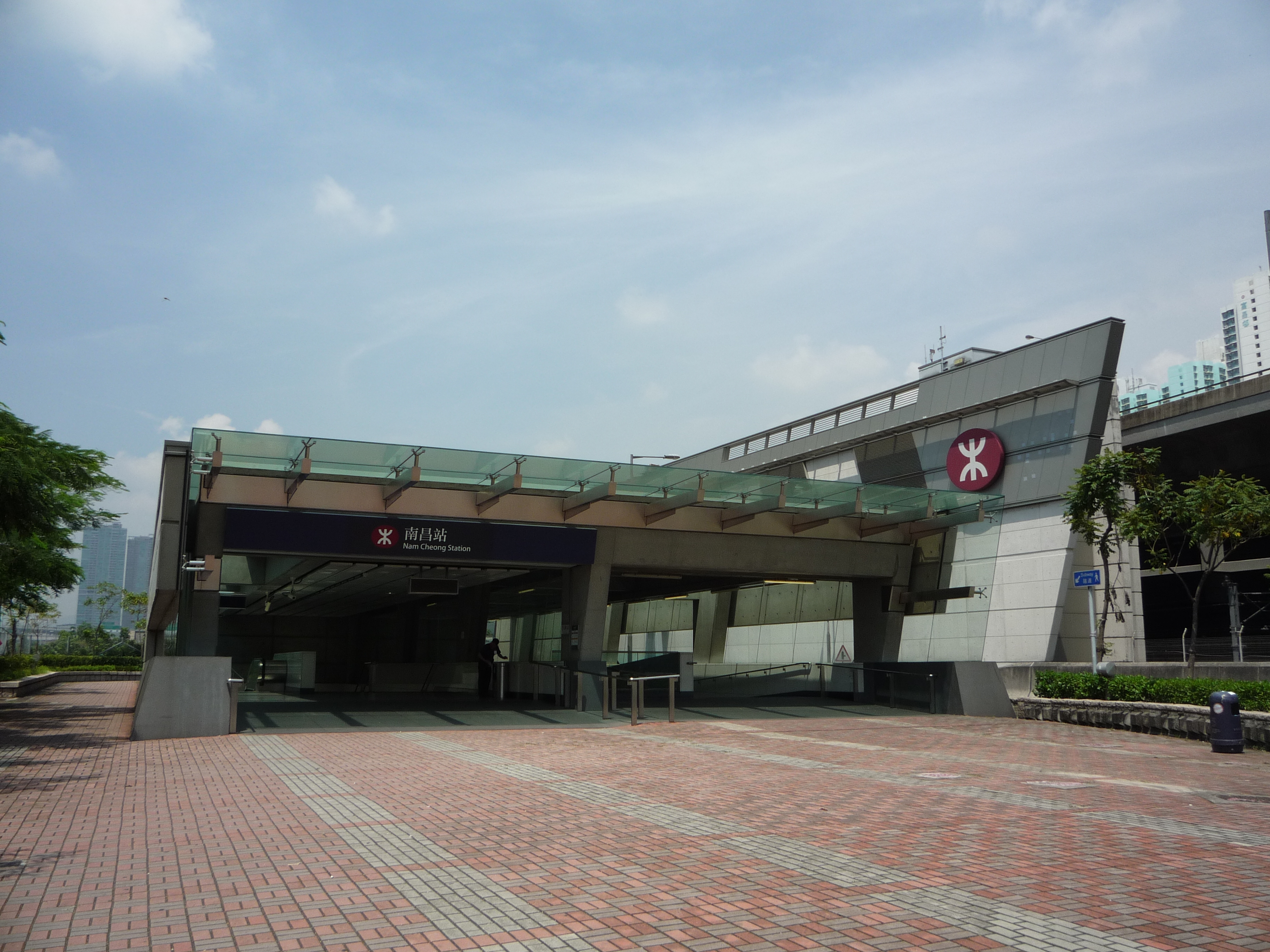 MTR Nam Cheong Station Exit C